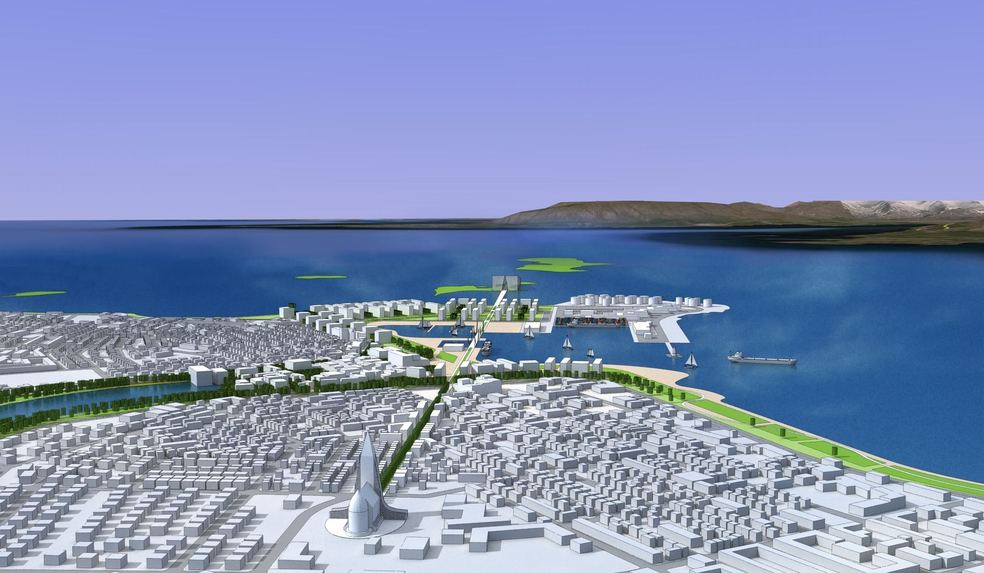 Reykjavik proposal